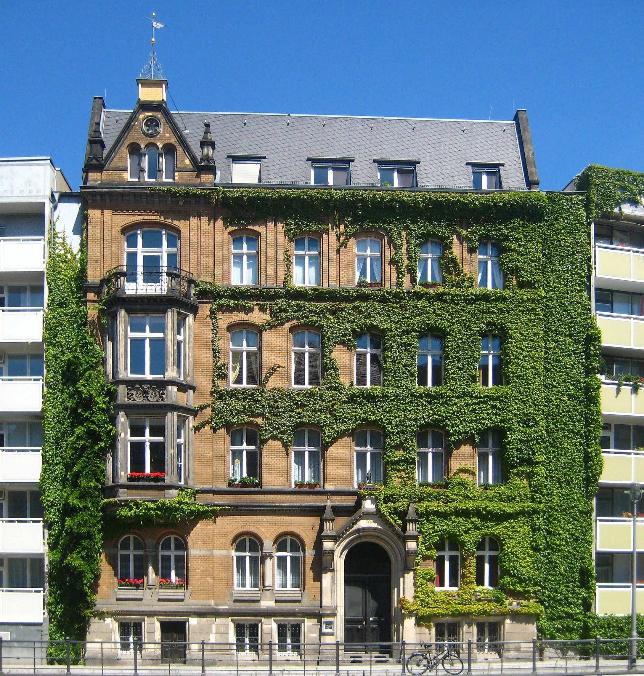 The former rectory of Petrikirche at 53-55 Friedrichsgracht on Spreeinsel in Berlin-Mitte. The congregation of Petrikirche (destroyed in WWII) commissioned this building and it was erected from 1885 to 1886. The architect, whose name is not known, designed a brick building with sandstone elements in the style of Gothic Revival architecture. It is one of only a few preserved historical buildings at Friedrichsgracht and is now surrounded by modern apartment buildings. It is landmarked.